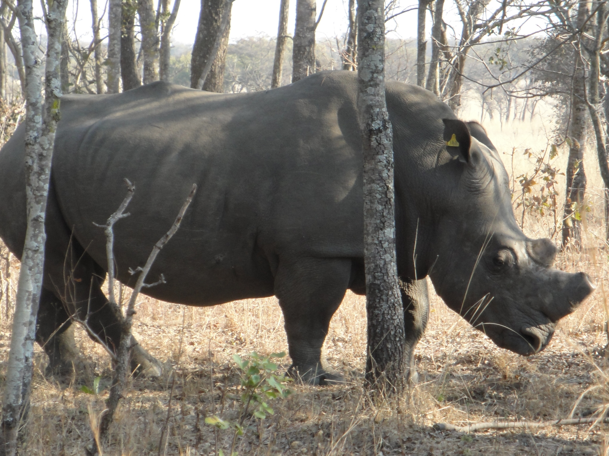 White rhinoceros, Chivero Recreational Park